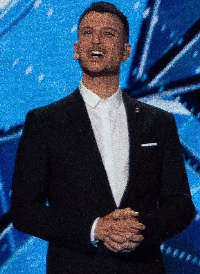 Hosts during a rehearsal before the second semi-final of the Eurovision Song Contest 2019 in Tel-Aviv.